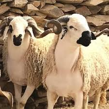 Two sheep of the moroccan sheep breed "Sardi"